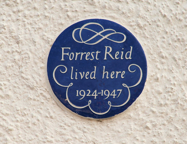 Forrest Reid plaque, Belfast A plaque, on a house in Ormiston Crescent, commemorating Forrest Reid (1875-1947) – author and literary critic.